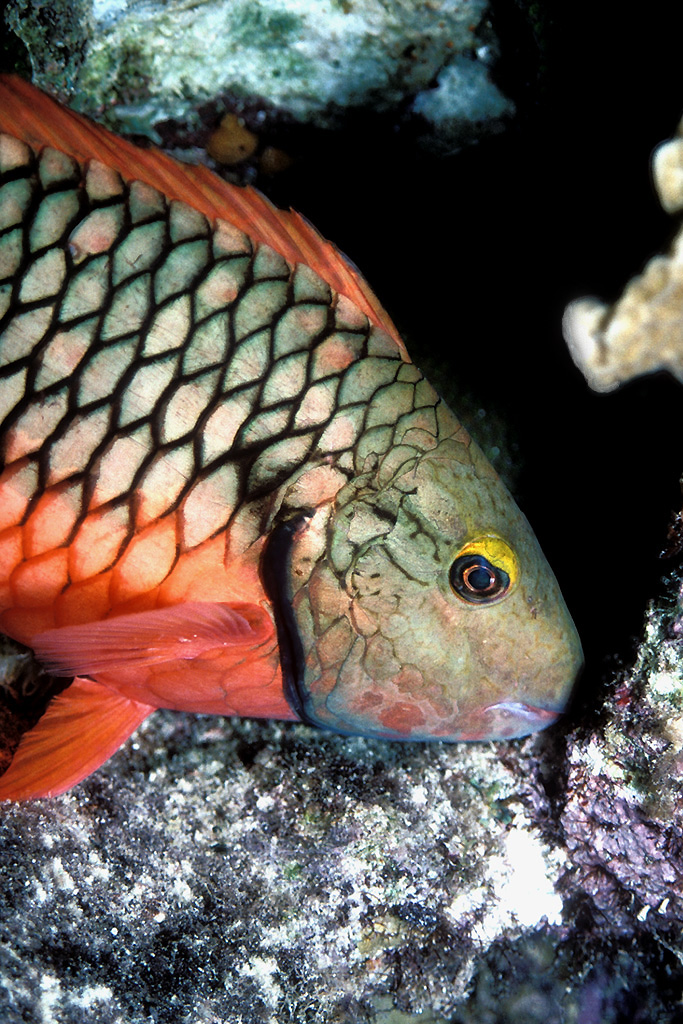 A female Stoplight Parrotfish (Sparisoma viride). Is the stoplight red, yellow, or green?Stoplight Parrotfish